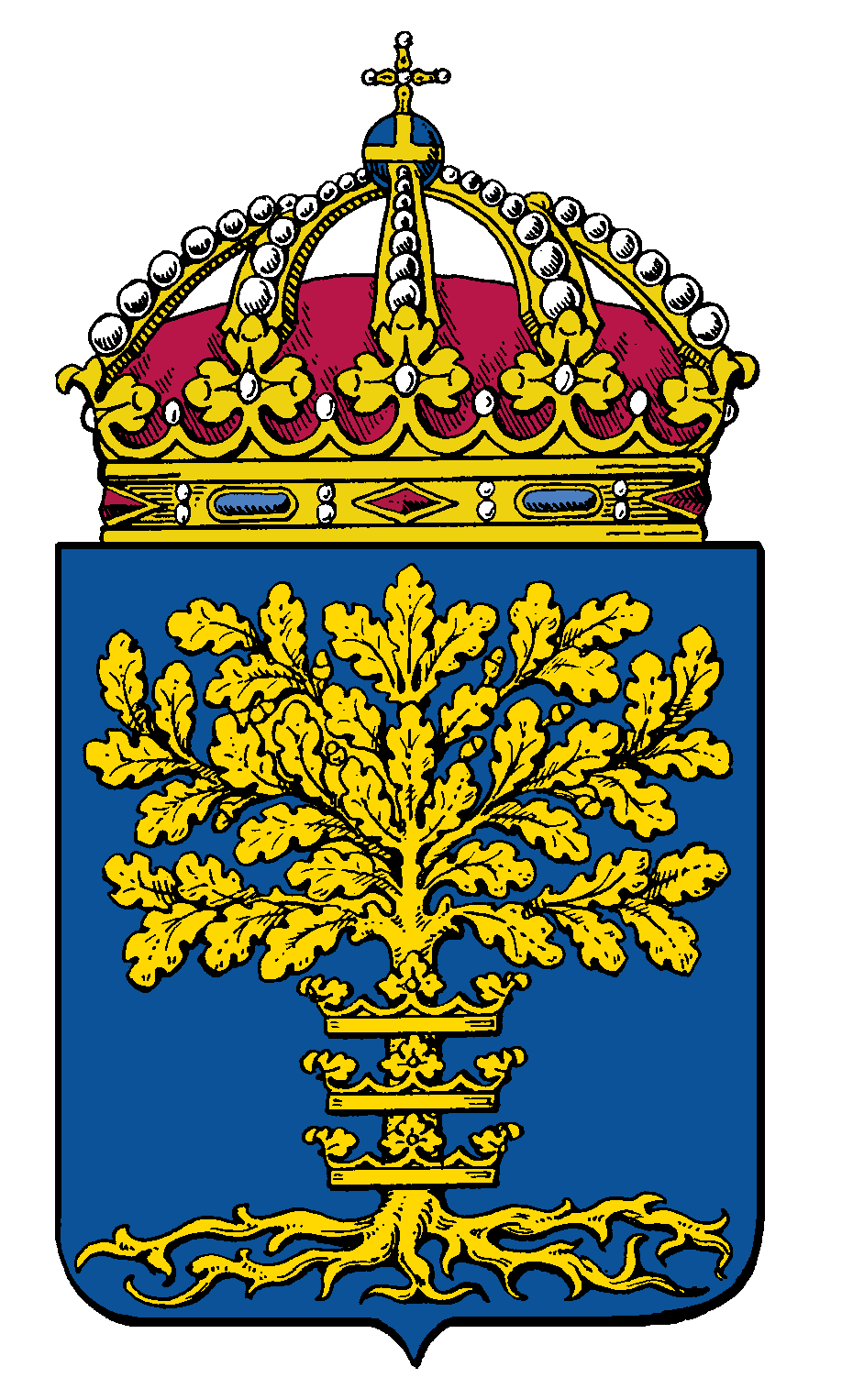 Coat of arms of the province of Blekinge